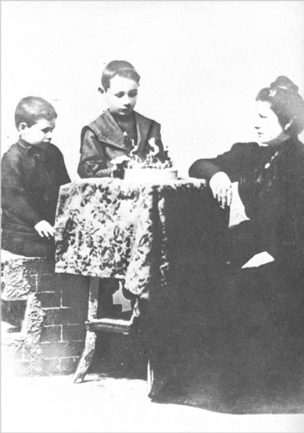 From left to right: Juan D. Perón, Mario Avelino Perón (brother) and Juana Sosa (mother).